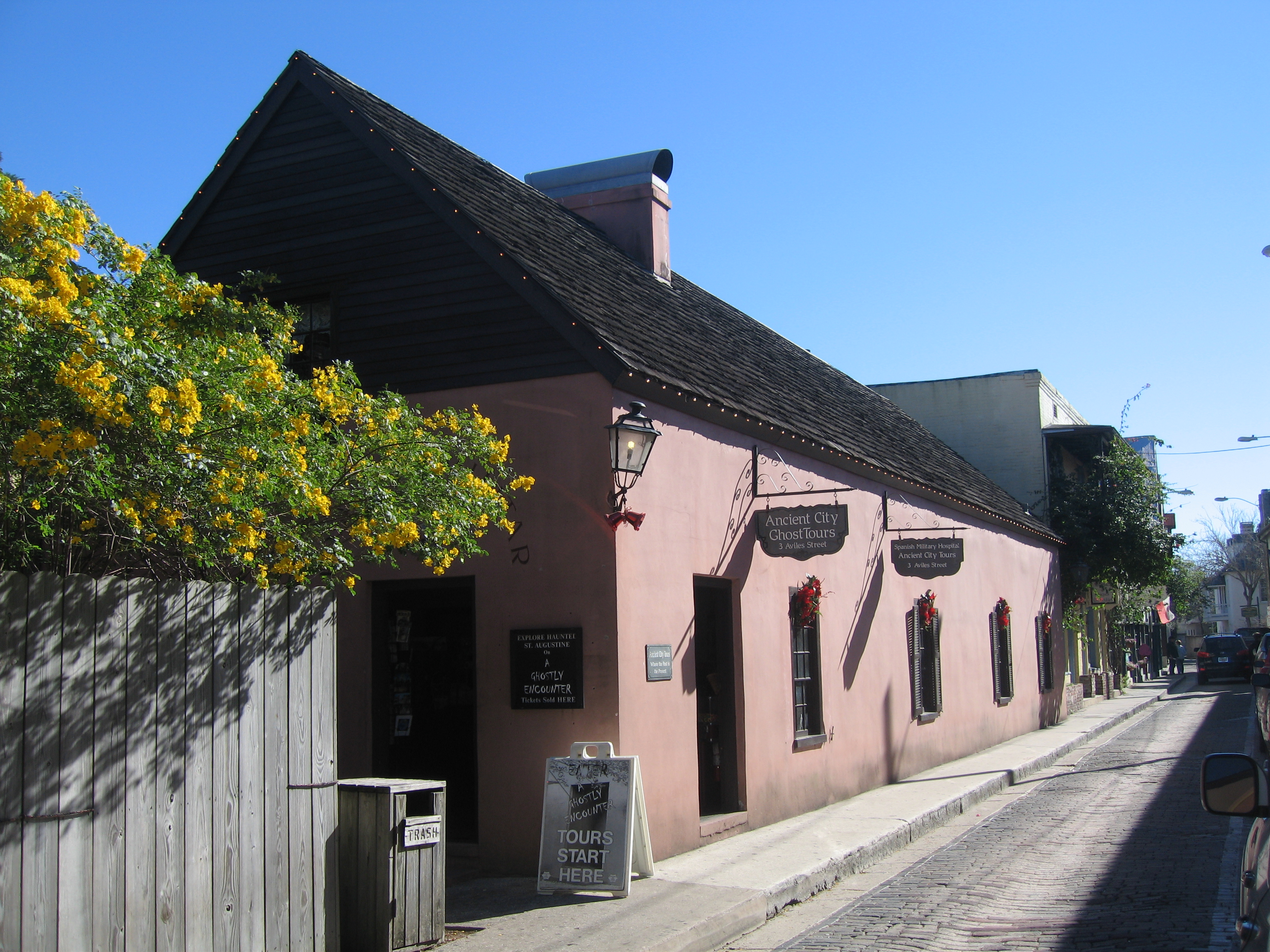 Oblique view of the front of the Spanish Military Hospital Museum, 3 Aviles Street, St. Augustine, Florida.